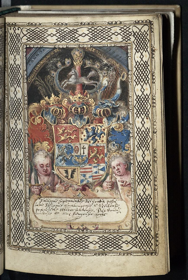 Coat of arms and autograph of Philipp Sigismund, prince-bishop of Verden and Osnabrück, inthe Album amicorum of David von Mandelsloh 1605